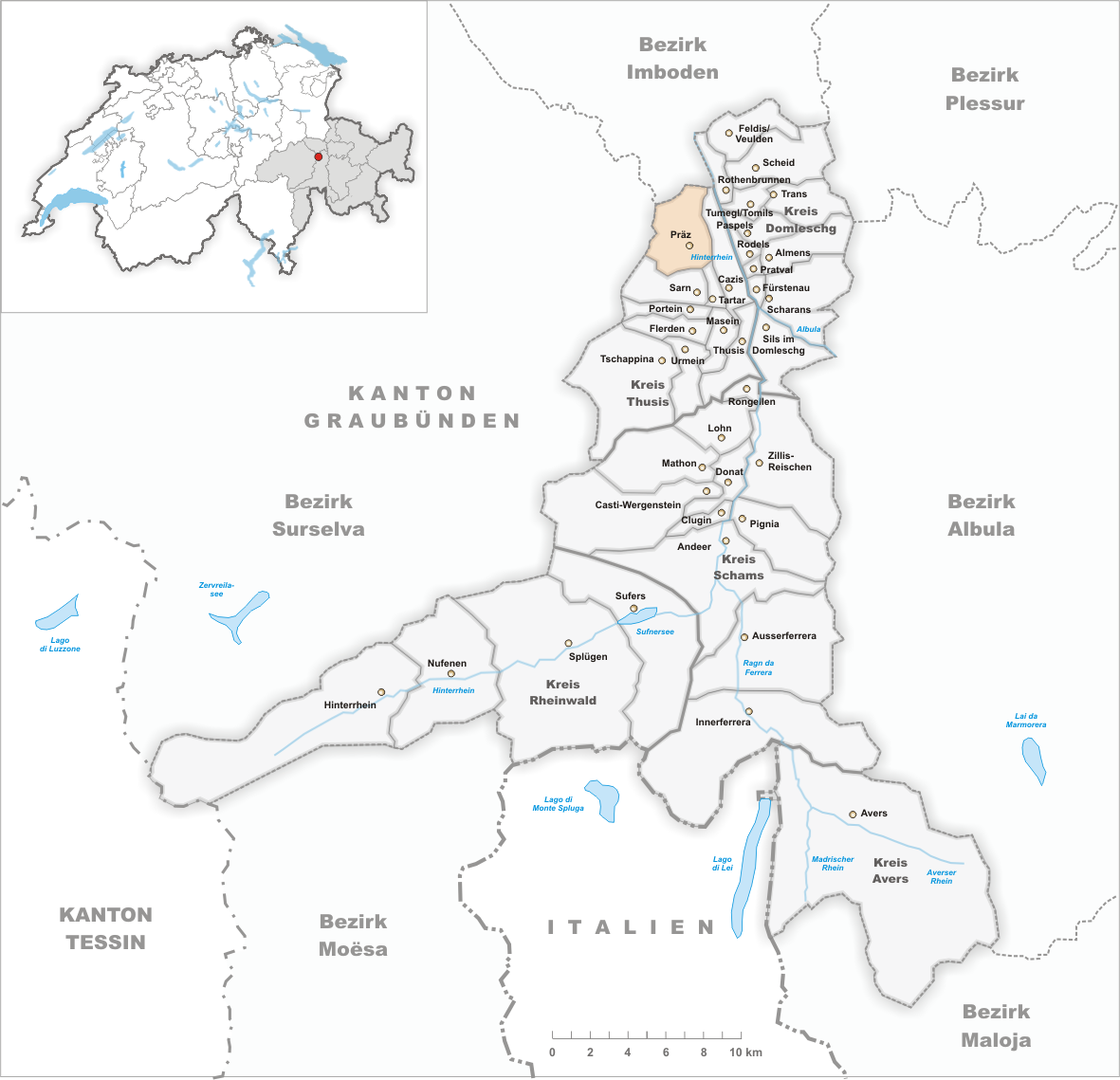 Municipality Präz